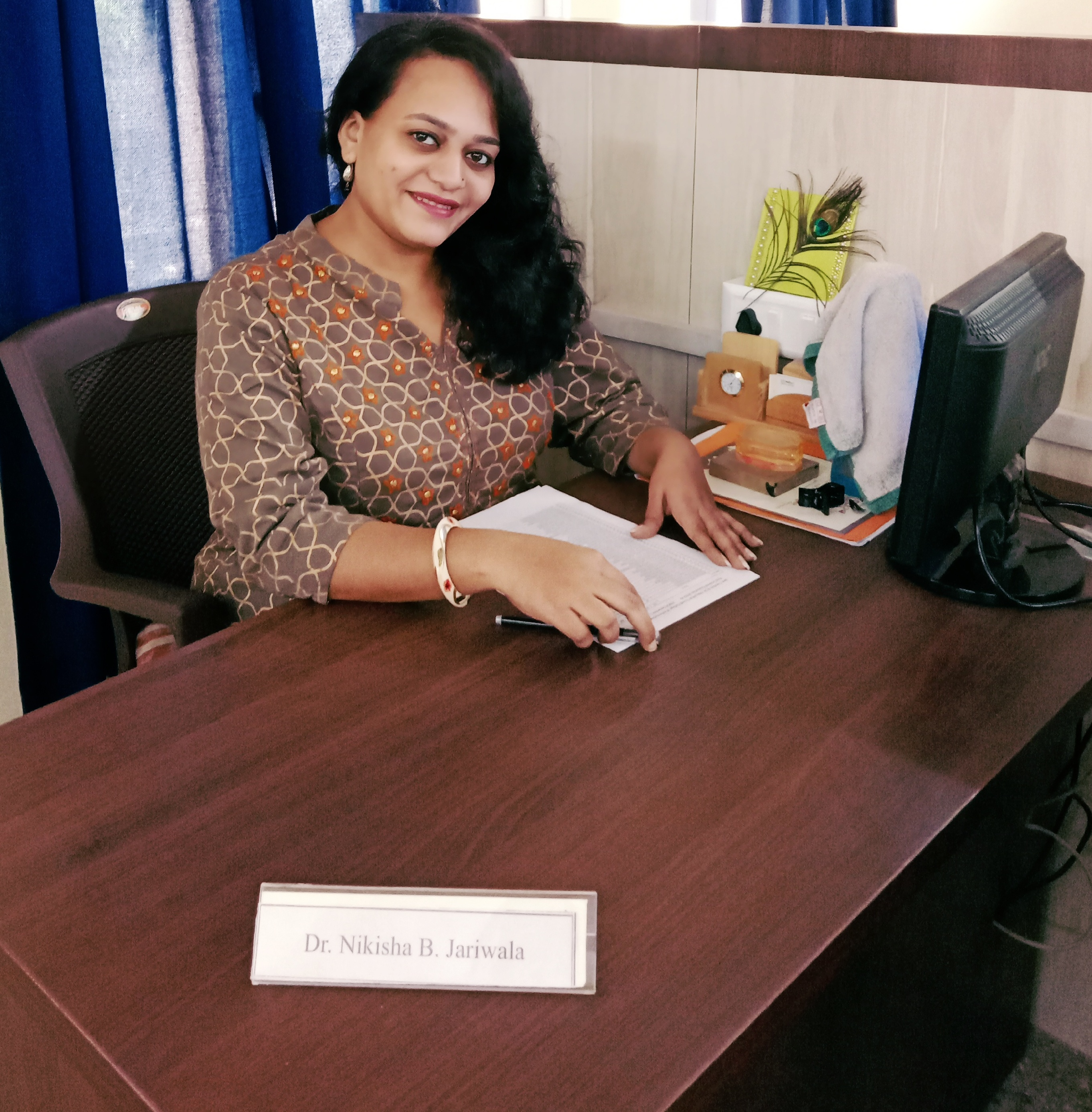 Dr. Nikisha Jariwala at her work place at the college in November 2019